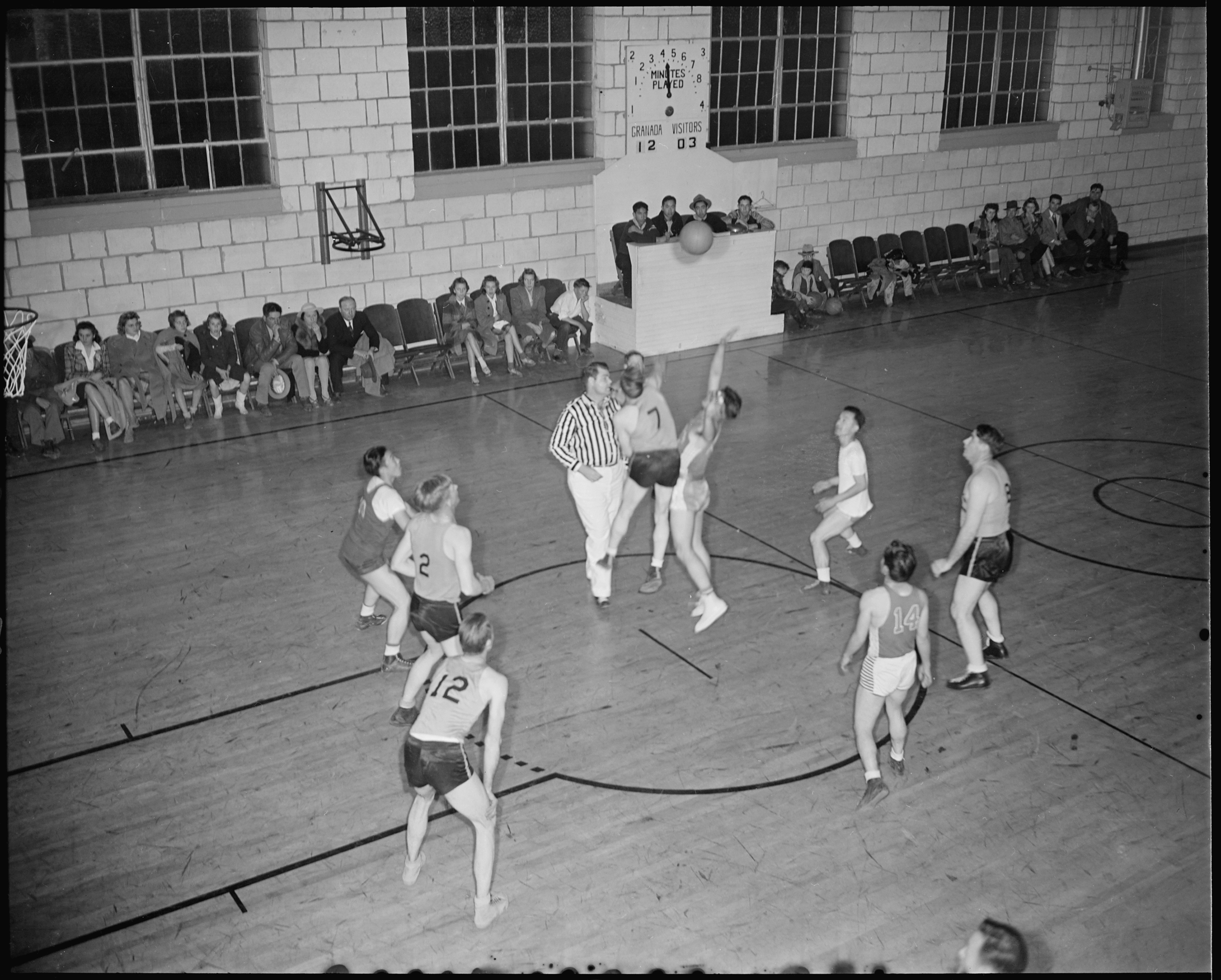 Scope and content: The full caption for this photograph reads: Granada Relocation Center, Amache, Colorado. A hotly contested basket ball game between the Granada city business men's team and a team recruited from the staff of the center newspaper. The final score, Granada 33, Amache 31. Said the Granada newspaper, "The game last night between the Granada business man's group and the Pioneers of the Amache Relocation Center was a huge success. It was a stiff contest and we are looking forward to a repetition in the near future."